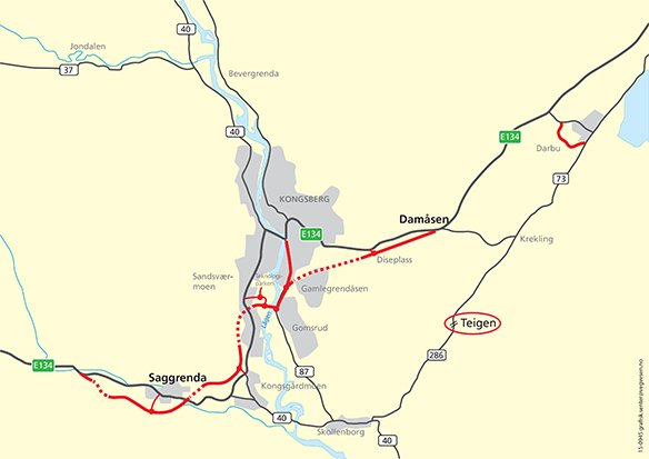 E134 construction project at Kongsberg. Map by Statens vegvesen.